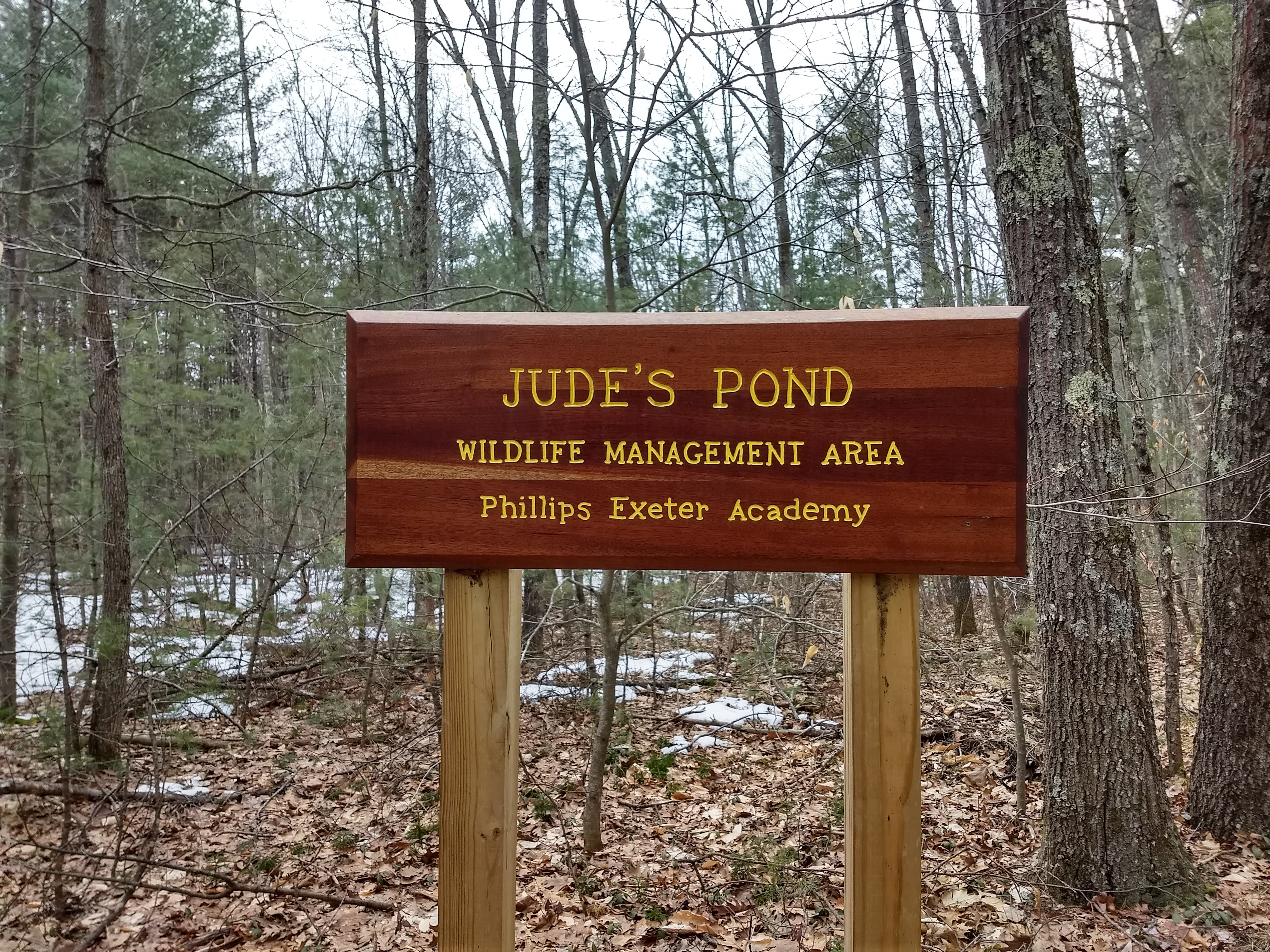 The sign at the entrance to the Jude's Pond section of the walking trails at 70 Drinkwater RD